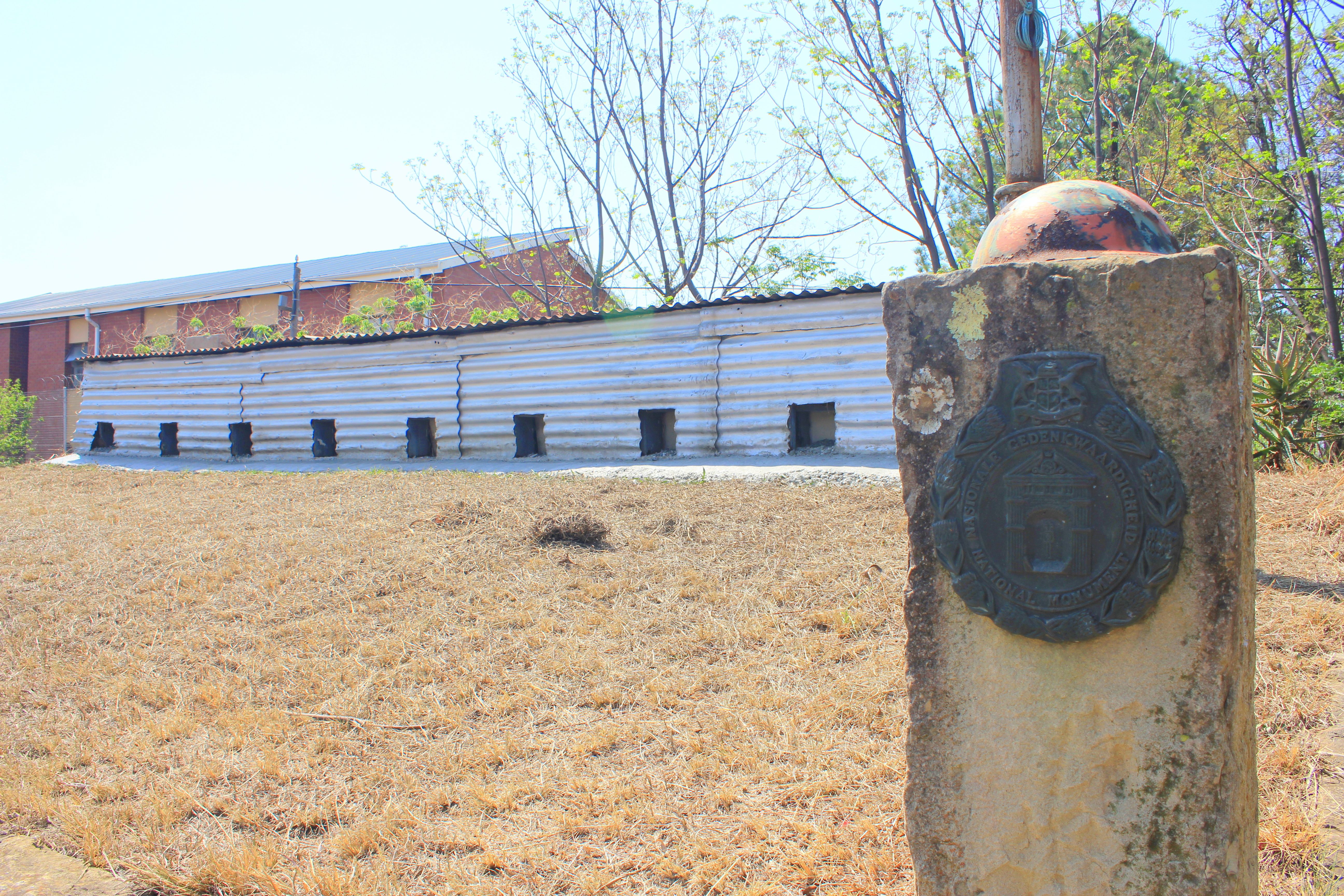 This media shows a South African Protected Site with SAHRA file reference 9/2/402/0004.